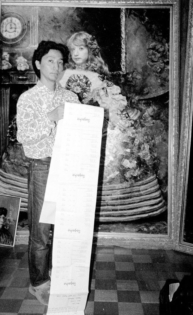 Yasumasa Morimura in his Osaka studio discussing his American PR strategy with Charles Wehrenberg